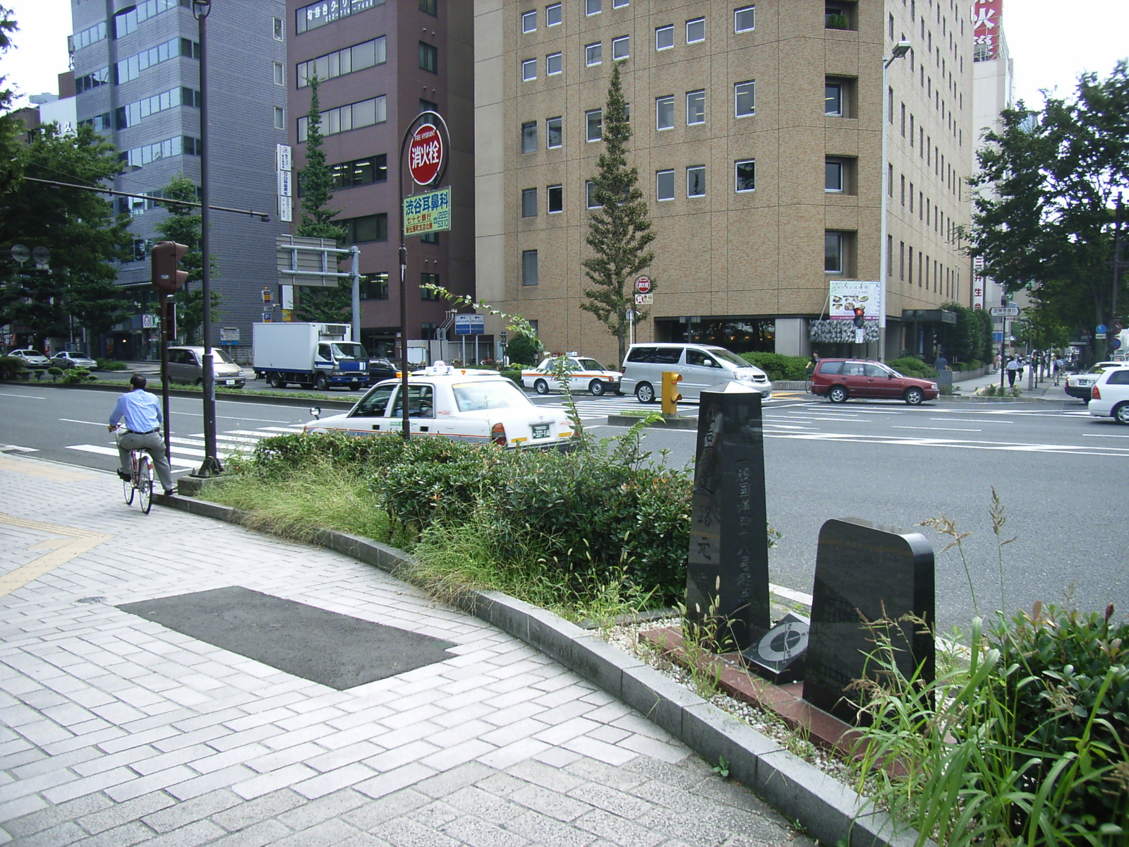 Start Point of the Route 45 (National Highway 45) of Japan. Sendai, Miyagi prefecture, Japan.